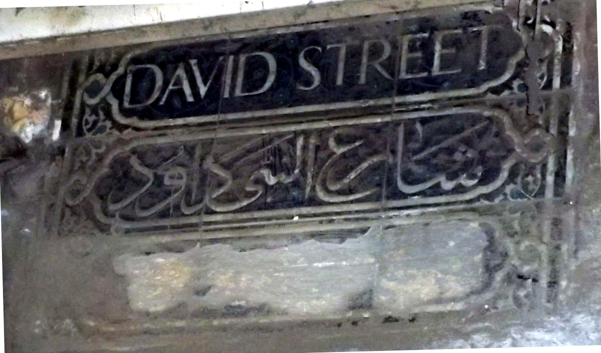 Old Jerusalem, Old "David street" sign - street sign from the British Mandate : english is on top, arabic in the middle and hebrew on bottom (today it's the opposite). the name in hebrew has been vandalized.